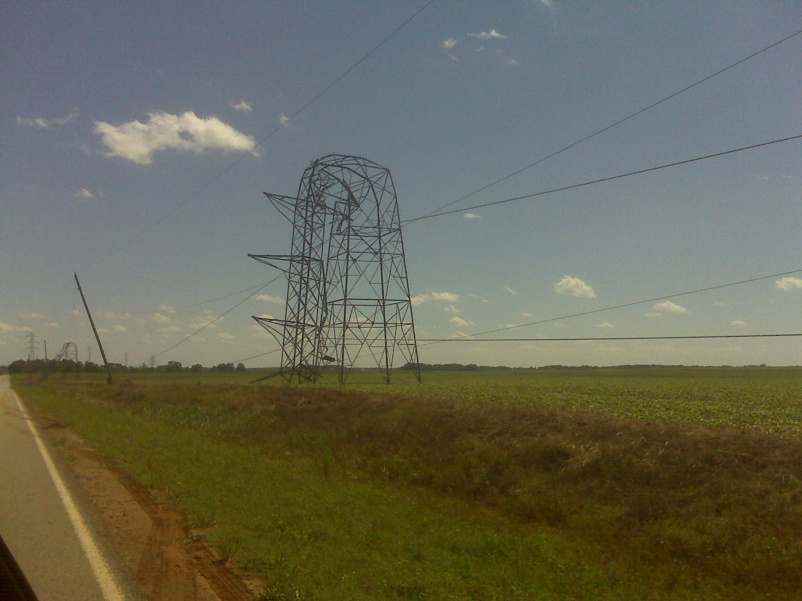 Transmission tower bent following severe weather outbreak of 27 April 2011. Photo is taken near Huntsville, AL on Powell Road.